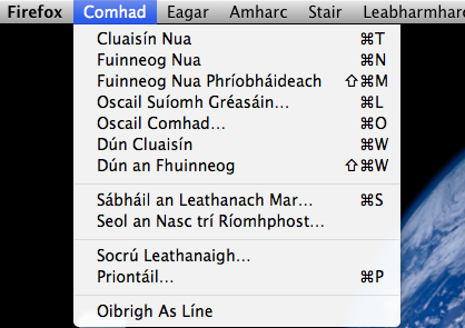 The "File" menu in the Irish localization of Firefox (on a Mac)